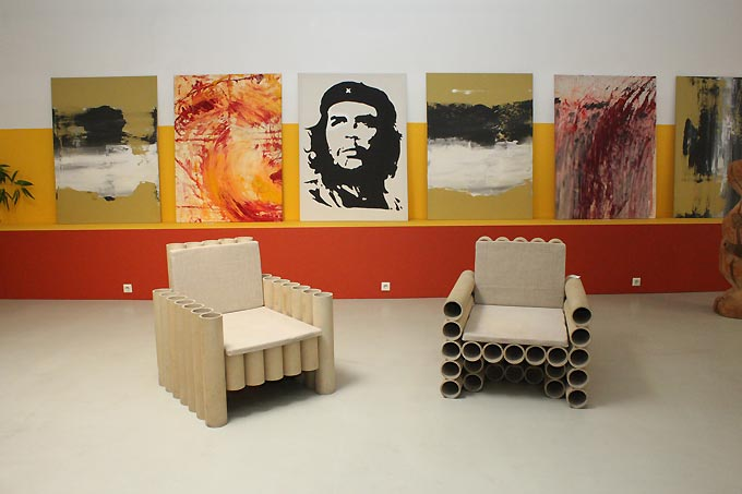 Gallery Artpark in the house of Moebel Leitner Linz, Austria